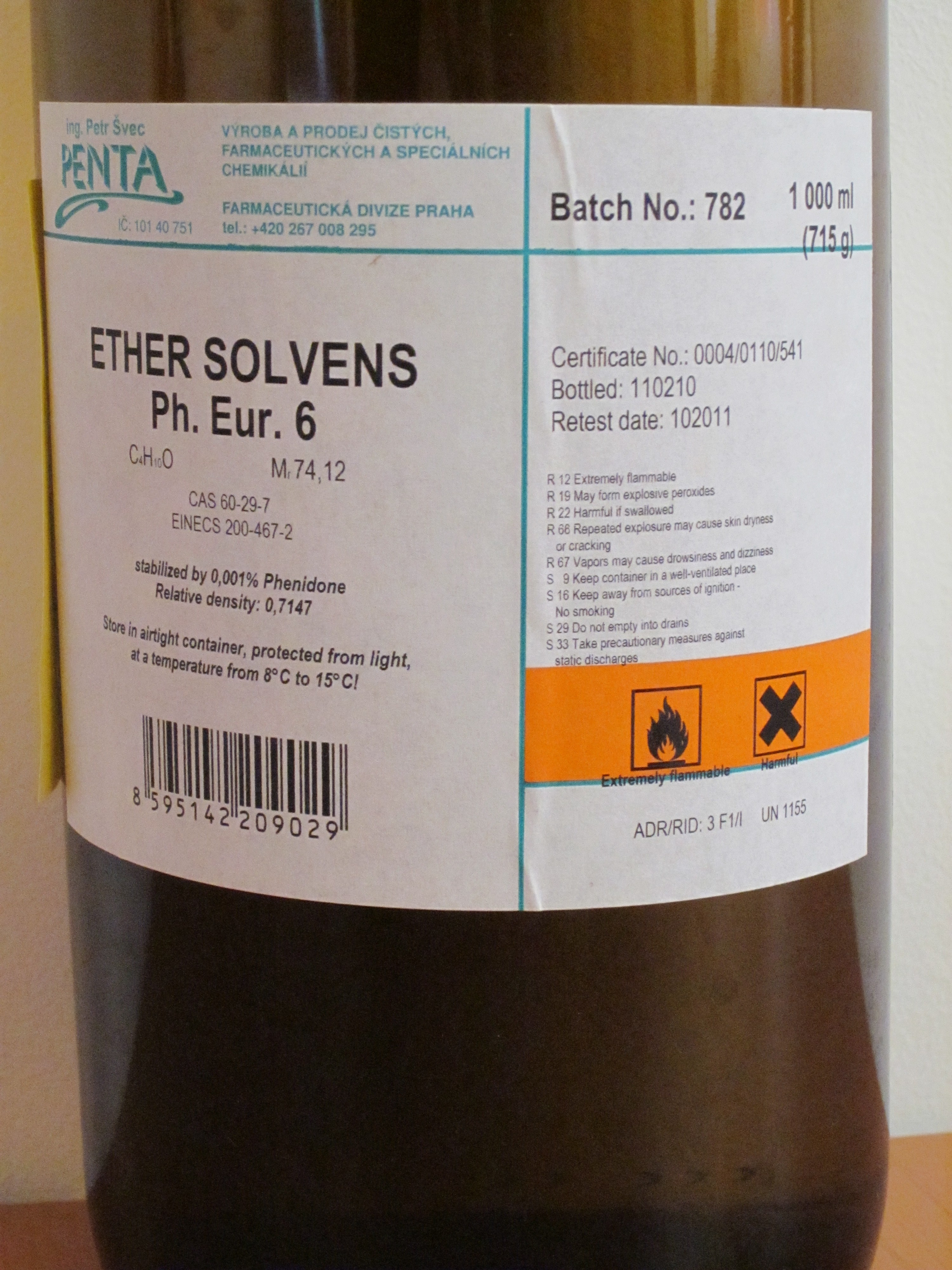 Diethylether fy. Penta (stabilised with phenidone).